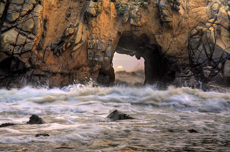 This opening in a cliff face at Pfeiffer Beach in Big Sur allows large waves to come through at high tide before a big storm. The waves often fill the entire portal to the top, and the portal becomes a giant water shotgun! The Tufoni formations in the rock are incredible and should be seen in person. The sun was only like this for about 30 seconds so I had to work fast. Fortunately, the sun was dimmed by high clouds but there was still enough light to reflect onto the rock face from the cliff behind the camera. Backlighting is crucial here; otherwise you have an overexposed portal with no detail on the rock face. Once the light was right, I waited for the water flow to become dramatic. A short exposure time allowed a little movement while retaining detail of the sea spray.